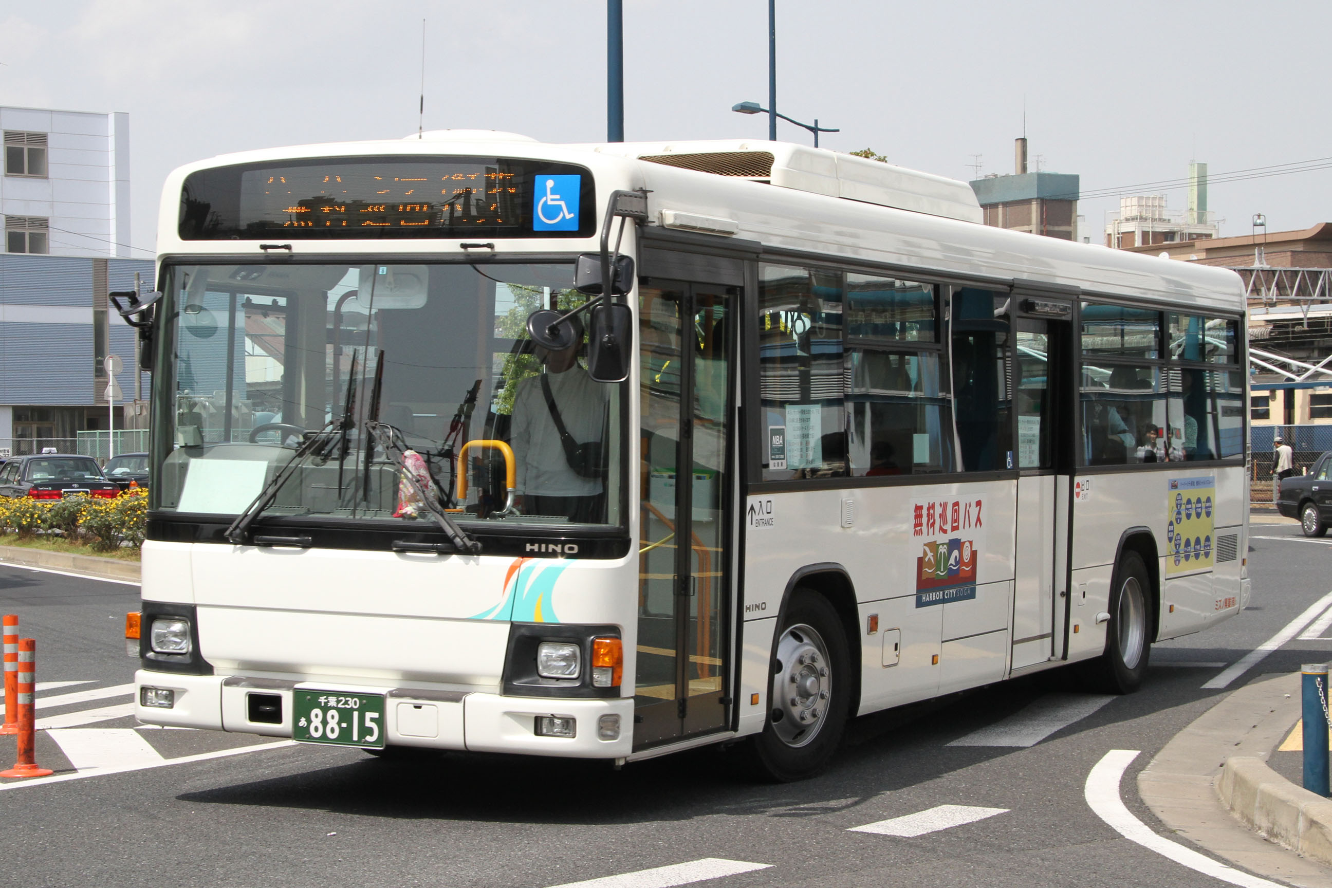 Mizuno Kogyo car (Harbor City Soga shuttle bus) ミズノ興業の車両（ハーバーシティ蘇我無料巡回バス）